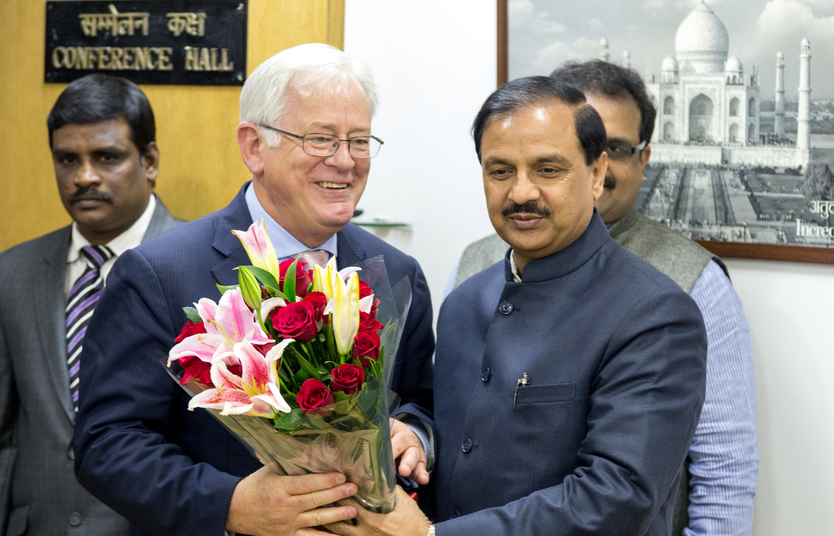 Minister for Trade and Investment Andrew Robb meeting with Dr Mahesh Sharma, Minister of State for Tourism and Culture during the Australian Business in India Week, on January, 2015.